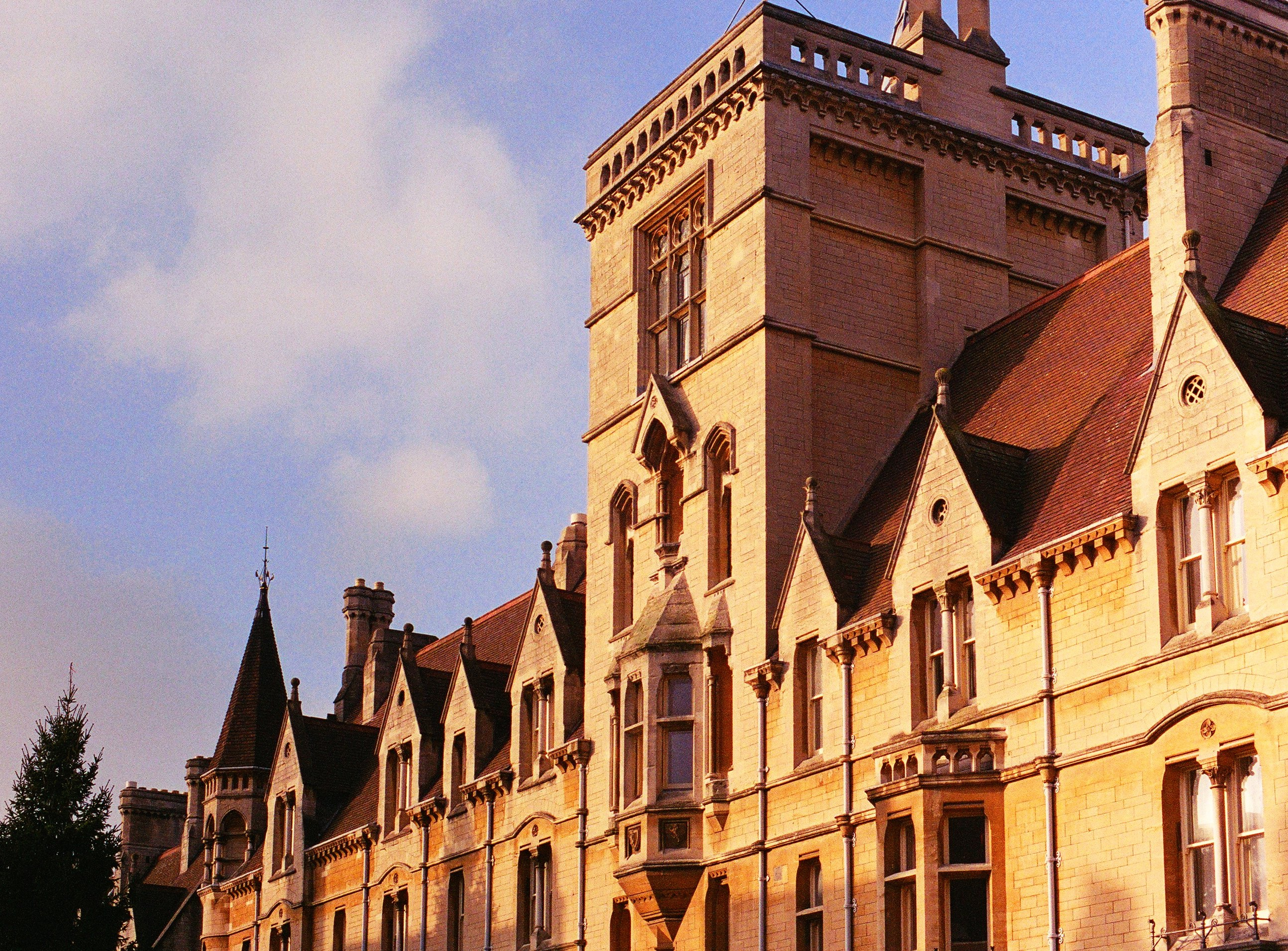 A photograph of the facade of Balliol College, Oxford.